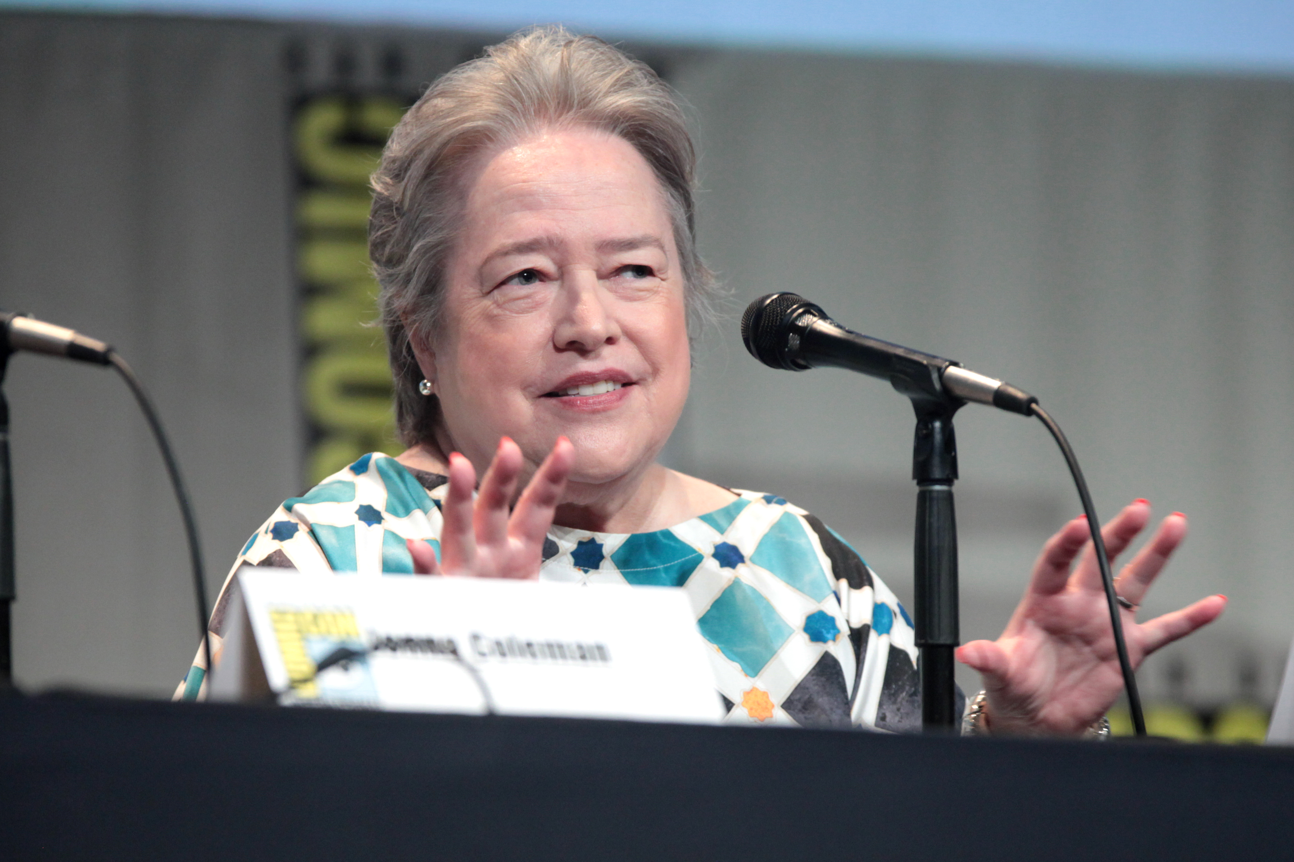 Kathy Bates speaking at the 2015 San Diego Comic Con International, for "Entertainment Weekly: Women Who Kick Ass", at the San Diego Convention Center in San Diego, California.